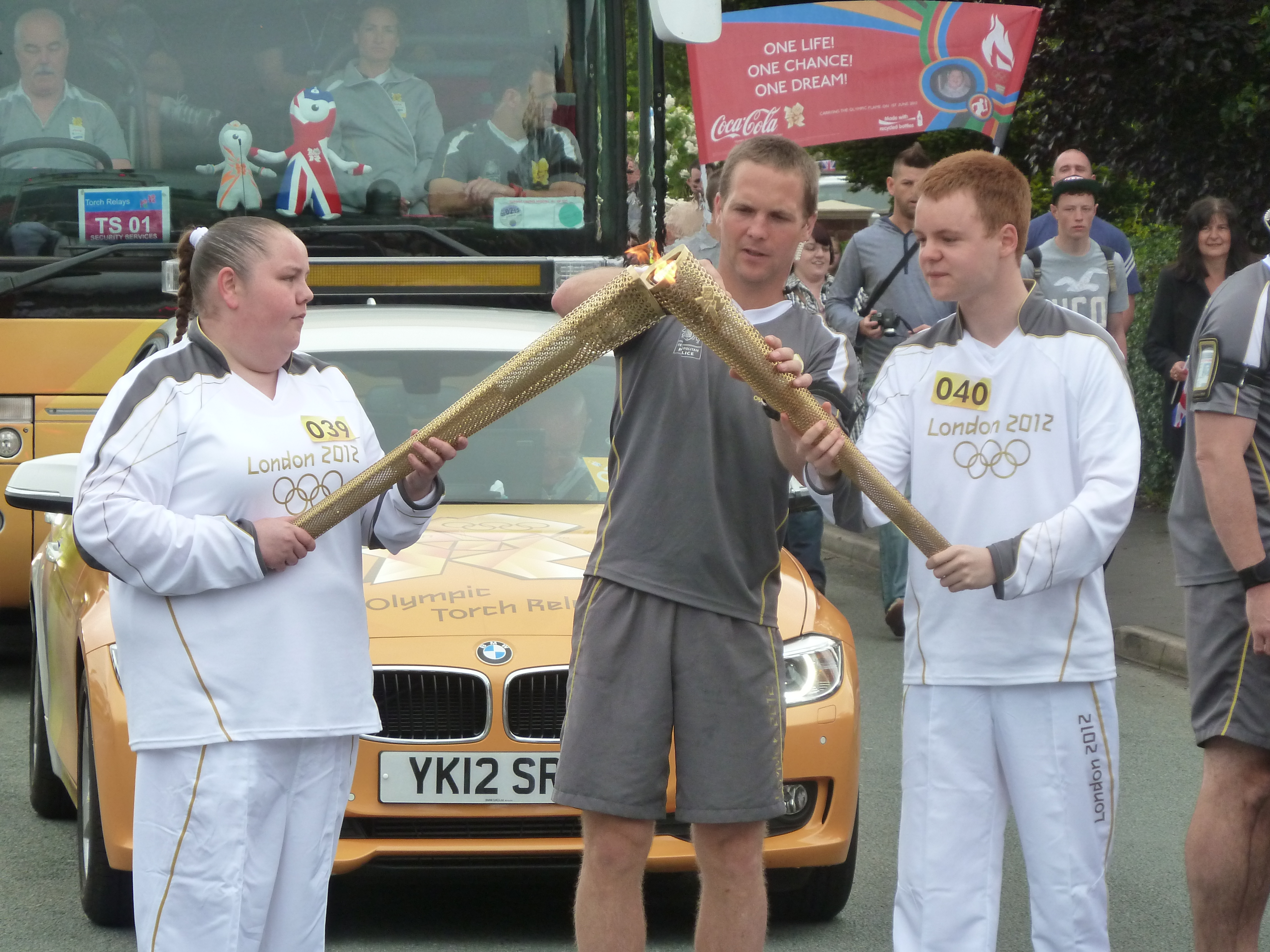 Olympic flame being passed from one torch to another in Burscough, Lancashire.